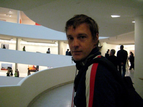 Dan Fallshaw @ Moma 2010